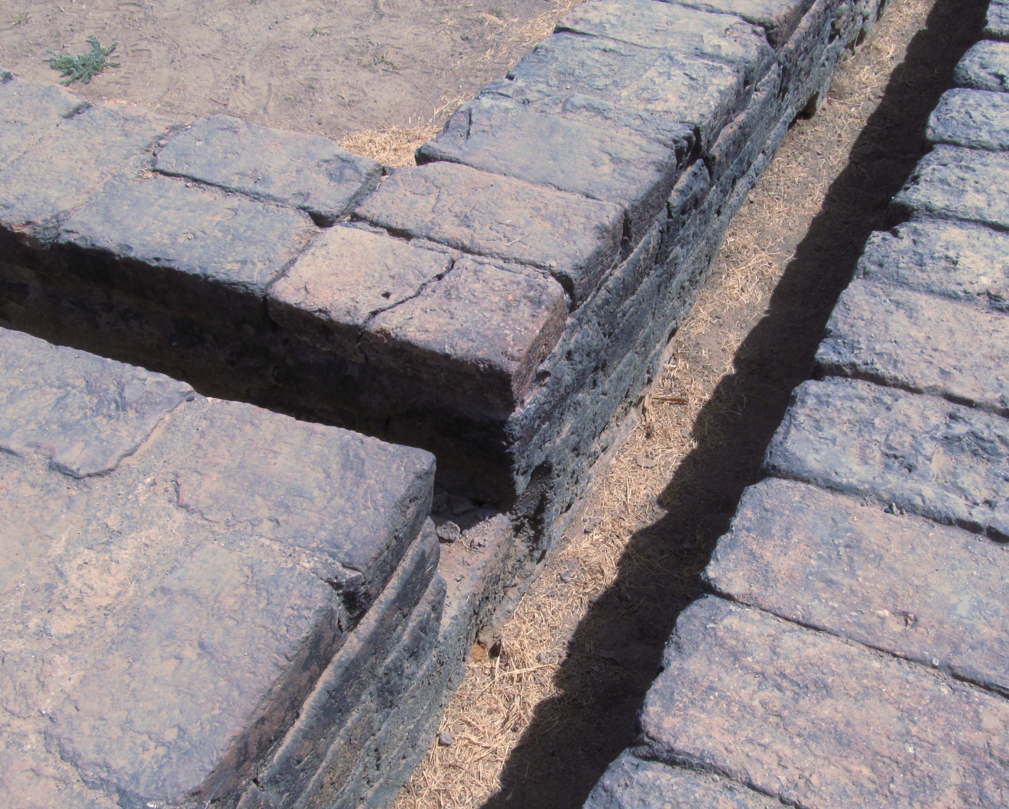 Drainage system at Lothal